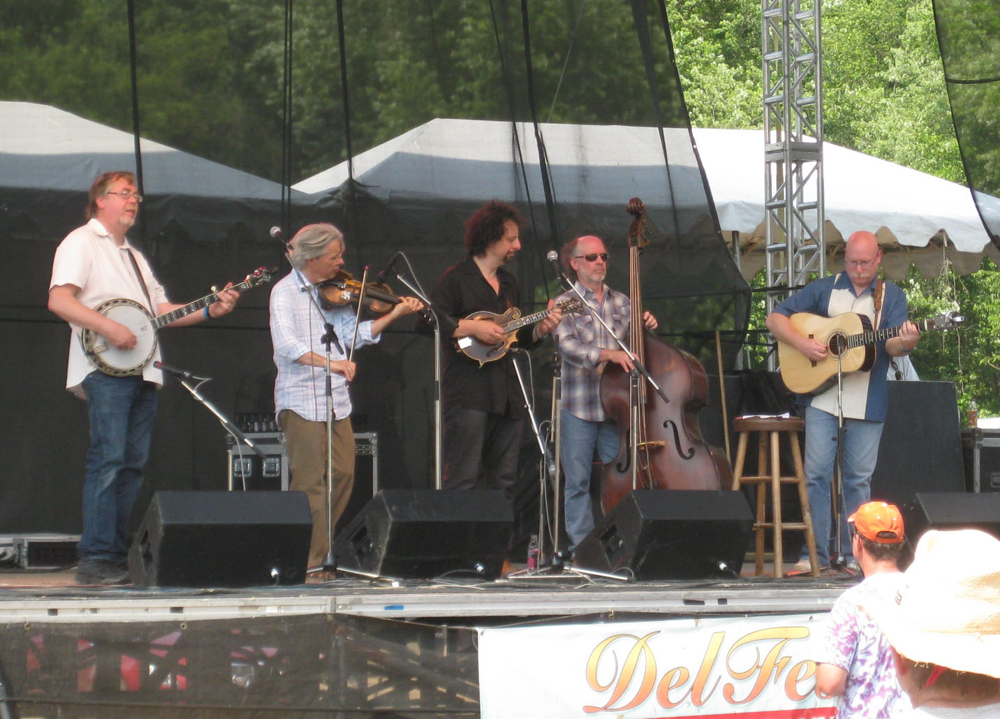 Psychograss at Del McCoury's DelFest at Allegany County Fairgrounds, Maryland, May 2011. Left to right: Tony Trischka, Darol Anger, Mike Marshall, Todd Phillips, and David Grier.